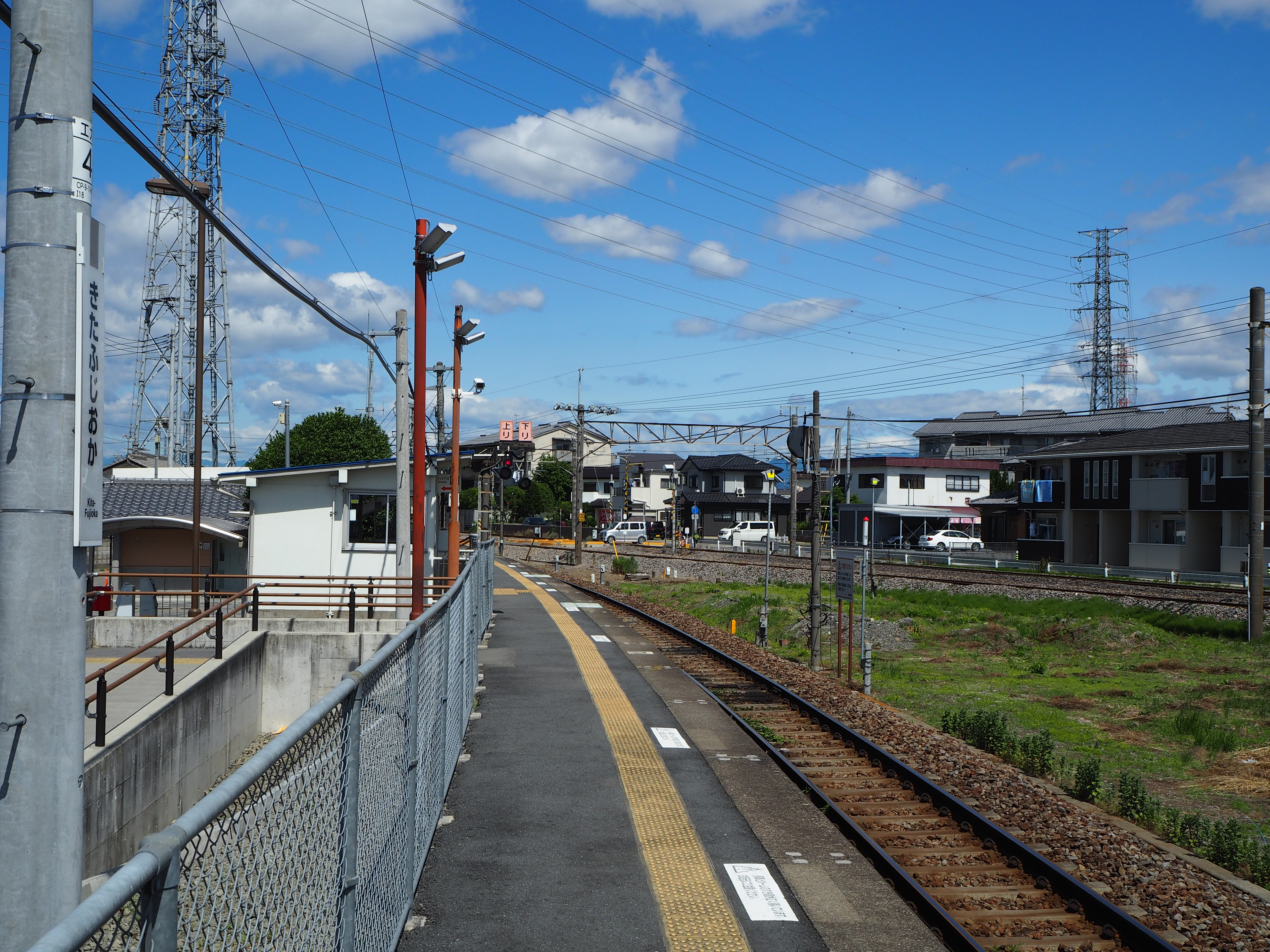 Platform of Kita-Fujioka Station